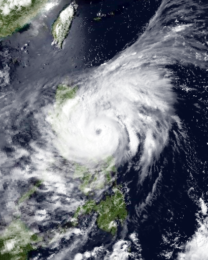 Typhoon Cary on August 8, 1987